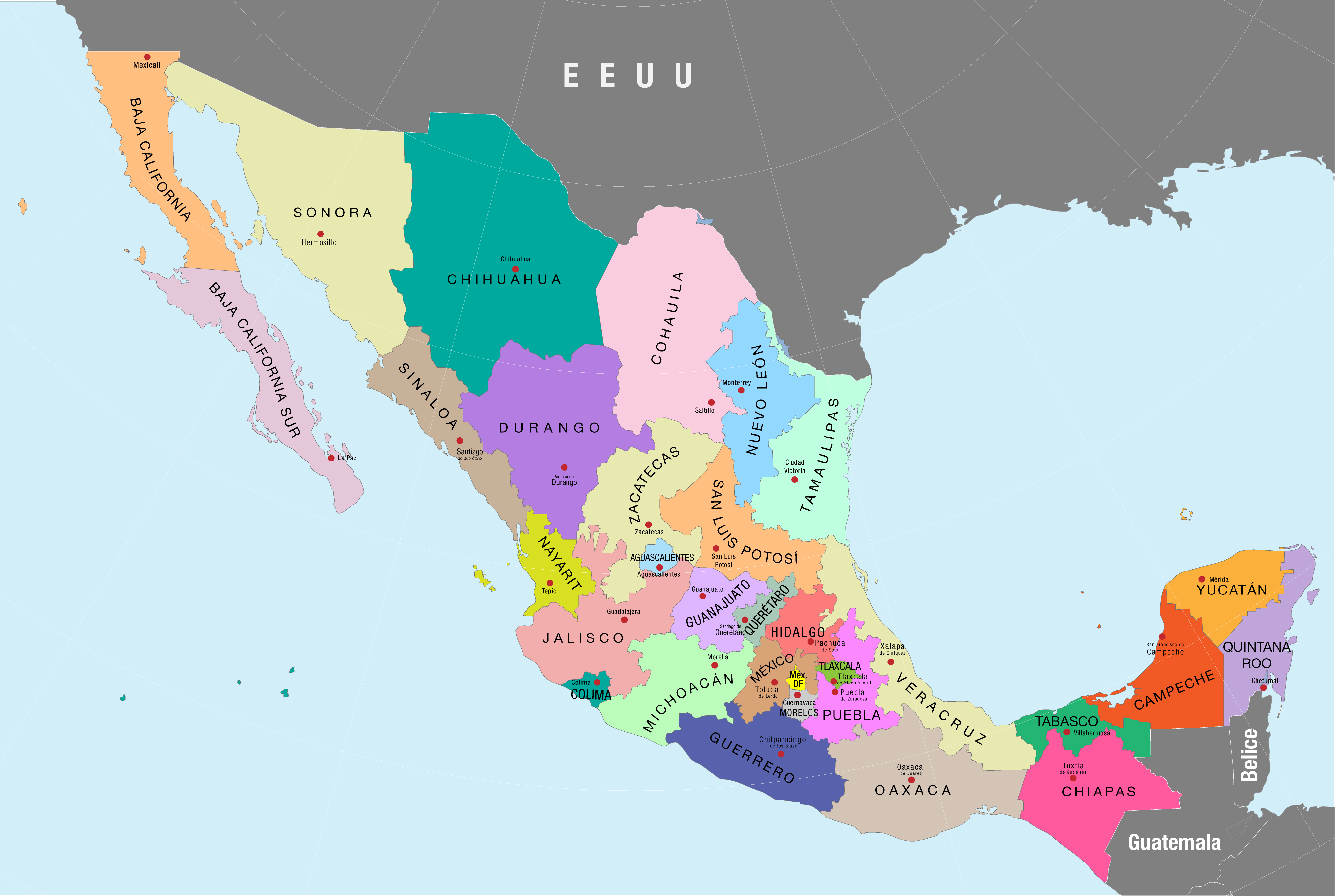 Coloured political map of Mexiko (with names of states and cities) Bsed on work of Alexis Rojas